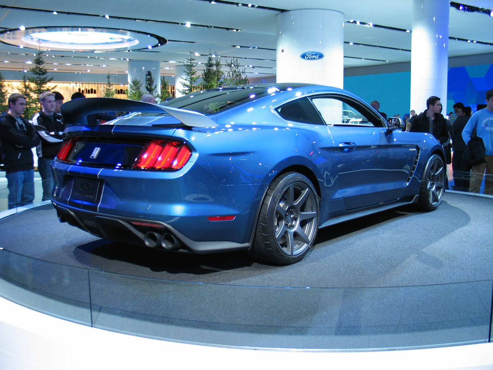 2016 Shelby GT350R rear